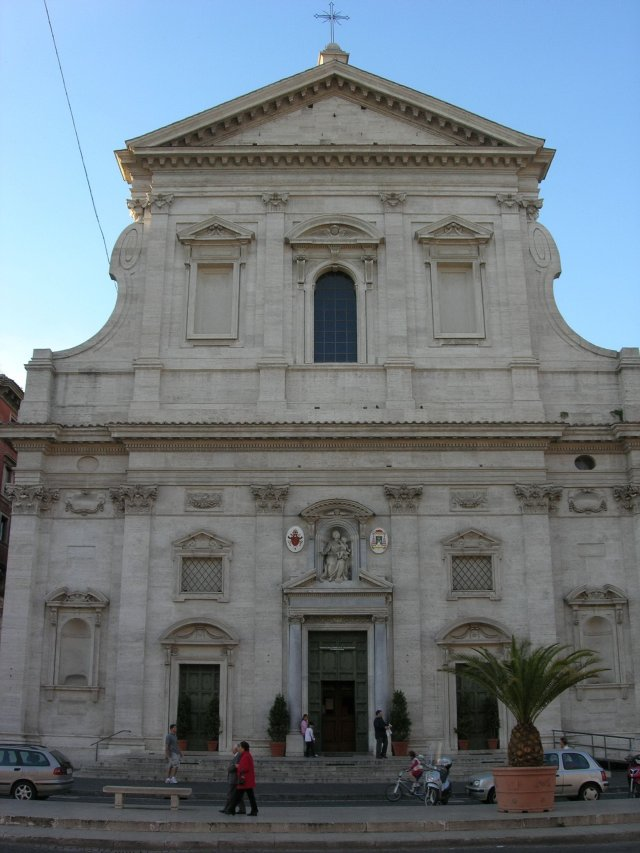 Church of S. Maria in Traspontina